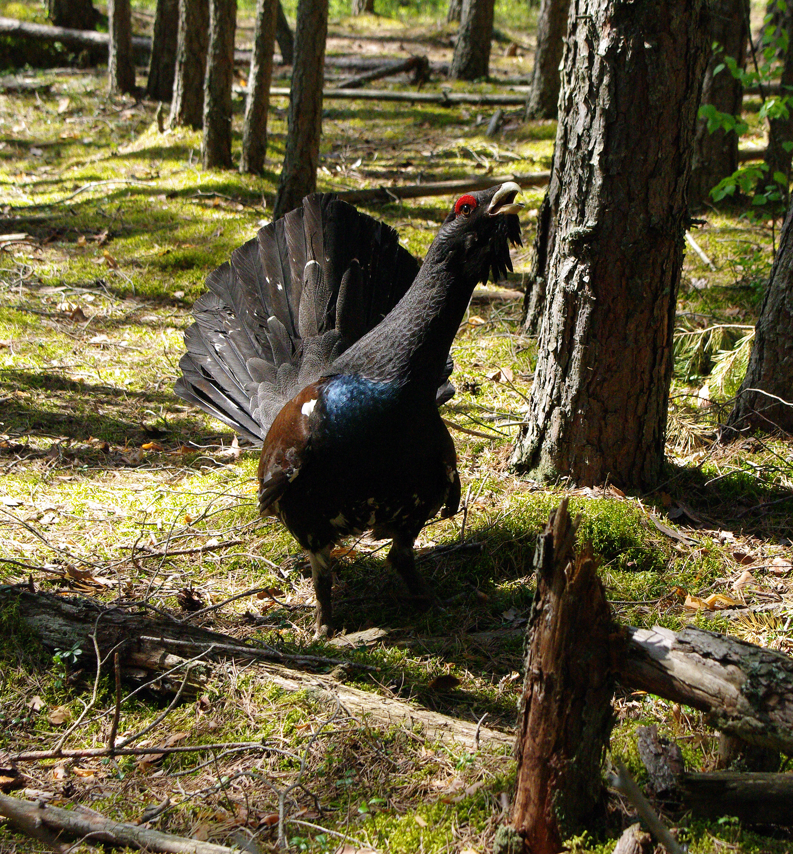 Tetrao urogallus in Estonia.